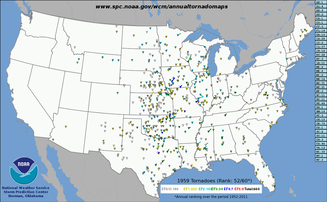 Track of every U.S. tornado from 1959.